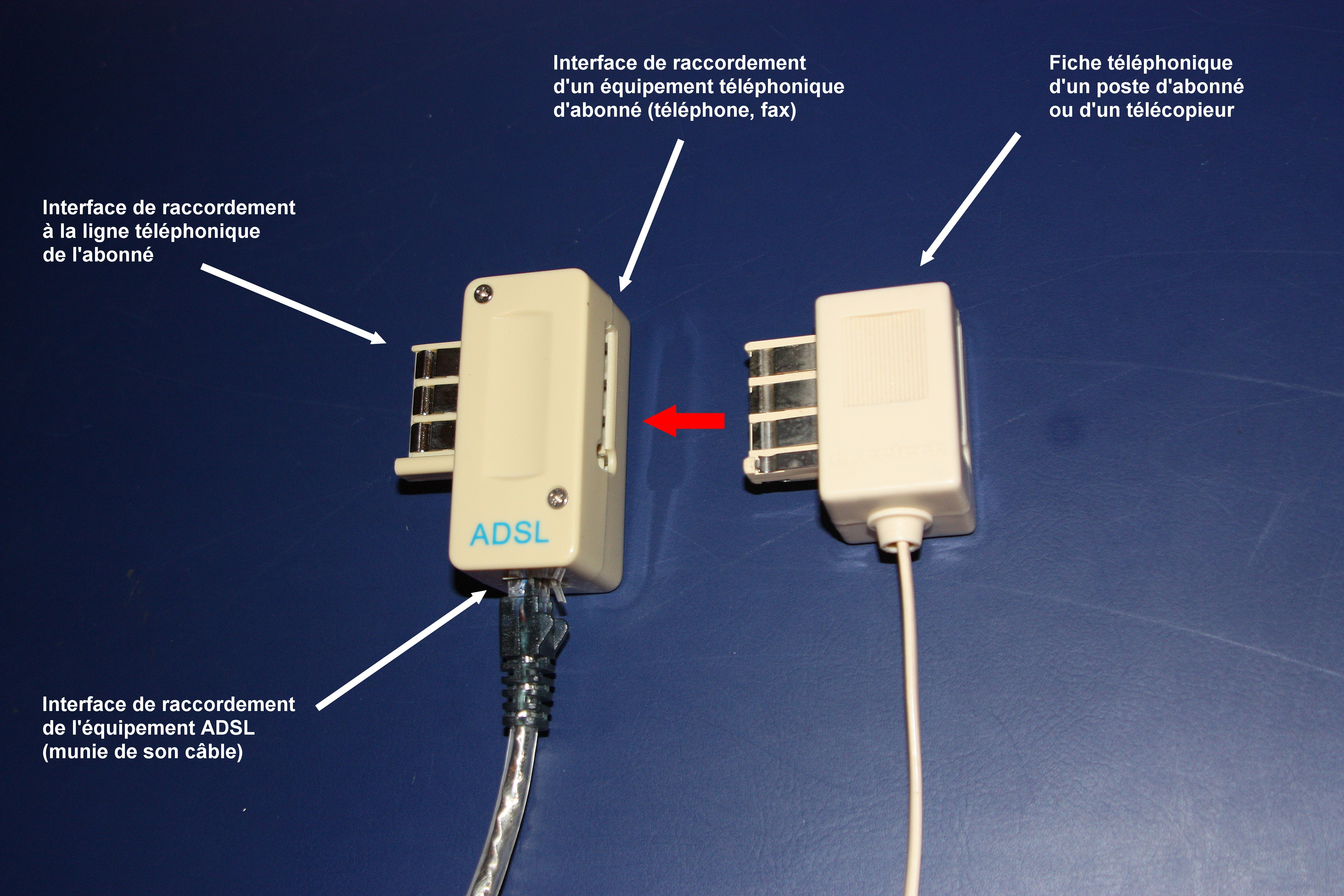 Connections with a T-shaped ADSL splitter used on french POTS and similar phone networks.